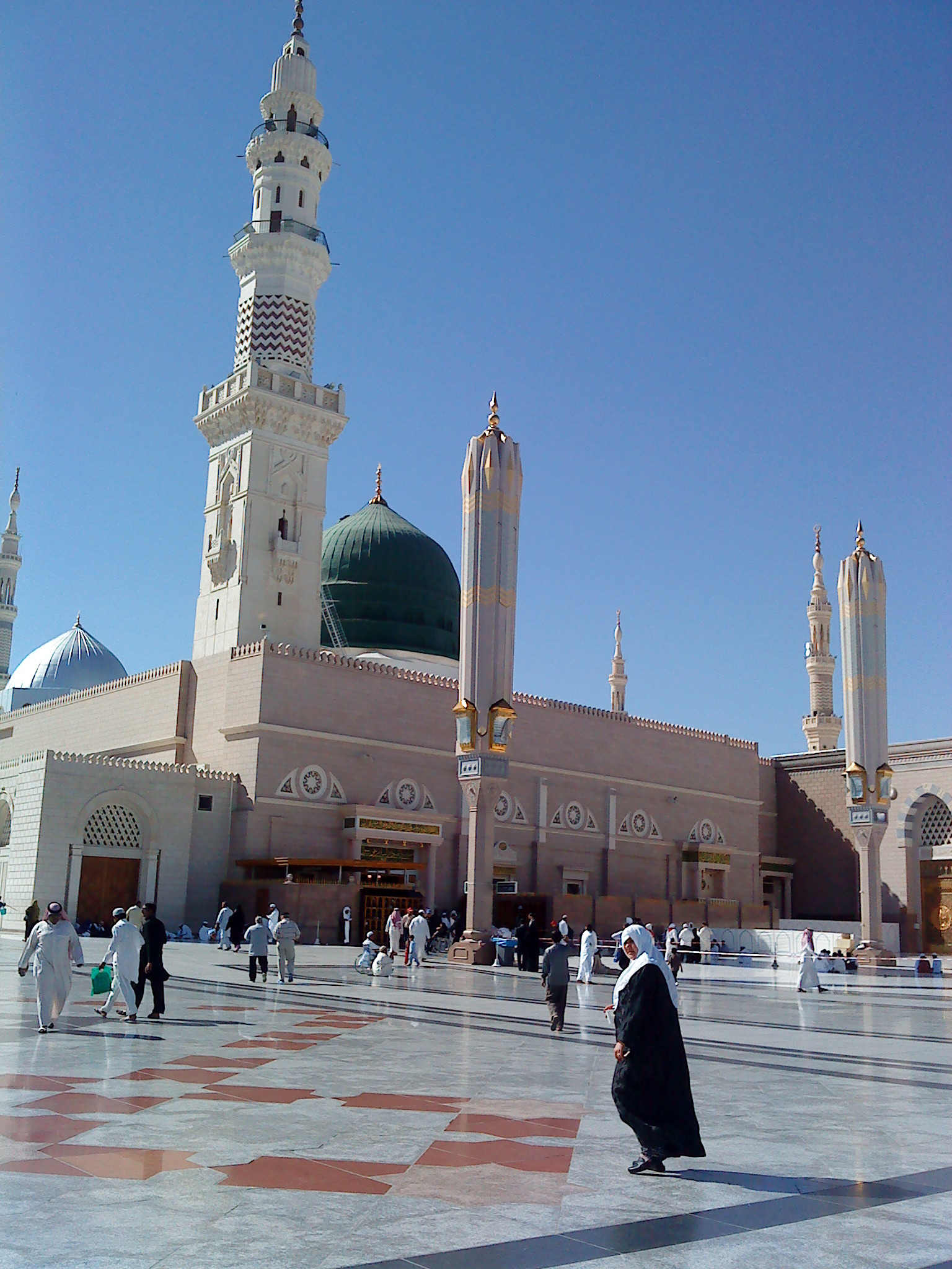 Mausoleum Muhammad photo